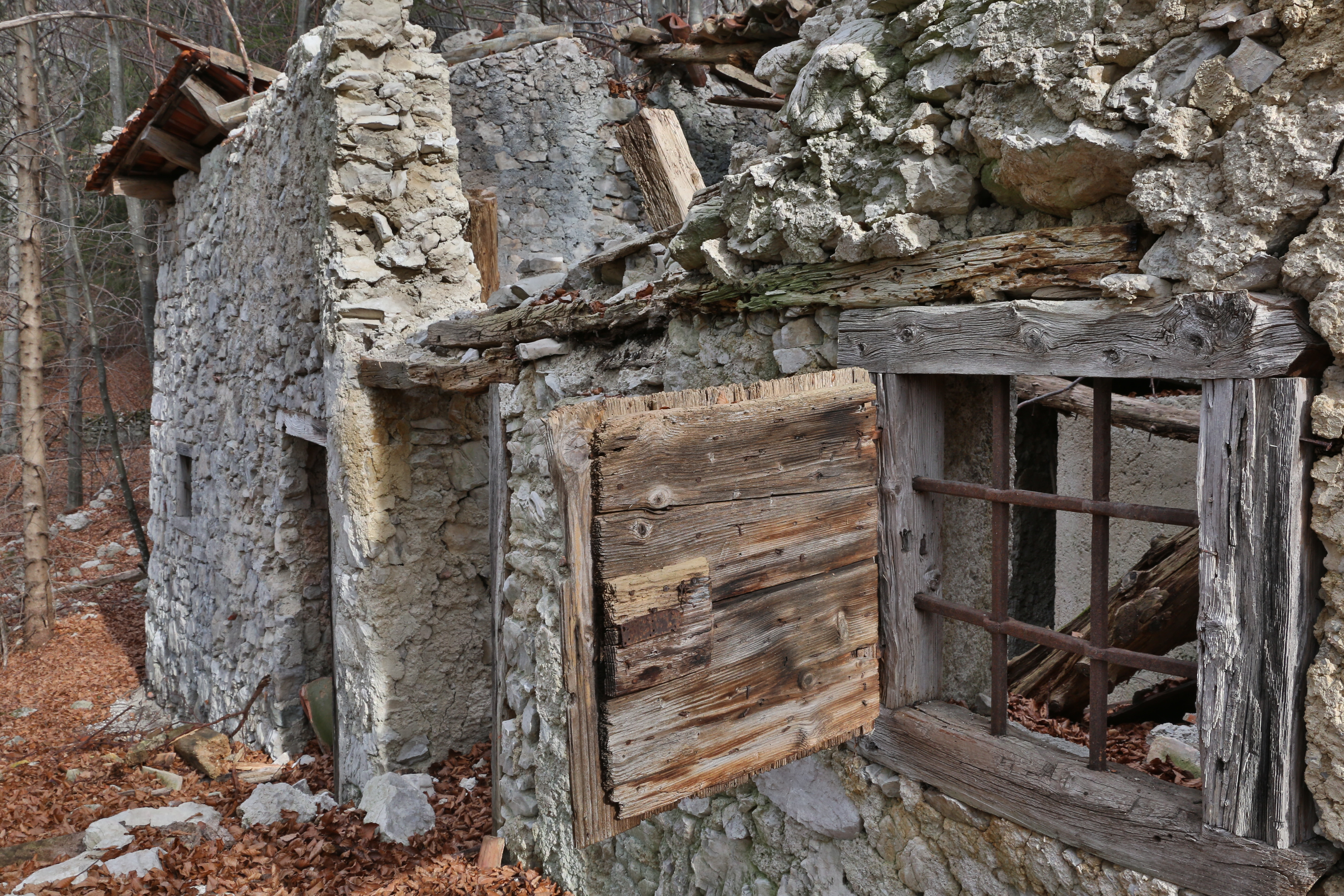 Alp near Drentus above Dordolla in the Val d'Aupa in the Carnic Alps, community Moggio Udinese / Friuli-Venezia Giulia / Italy / EU.